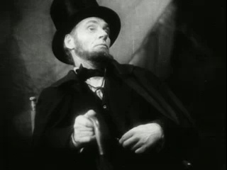 Screenshot from the movie Abraham Lincoln (1930)